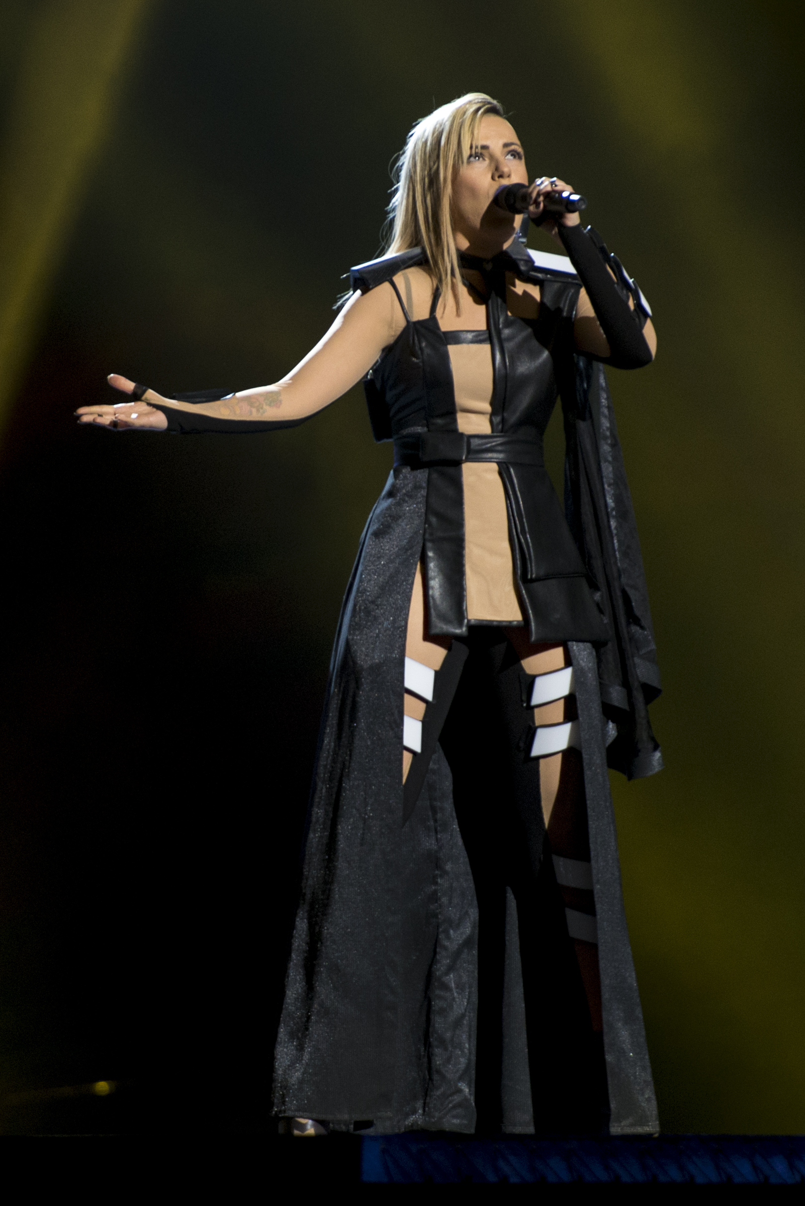 Poli Genova representing Bulgaria with the song "If Love Was a Crime" during a rehearsal before the second semi final of the Eurovision Song Contest 2016 in Stockholm. (Help translate this text)